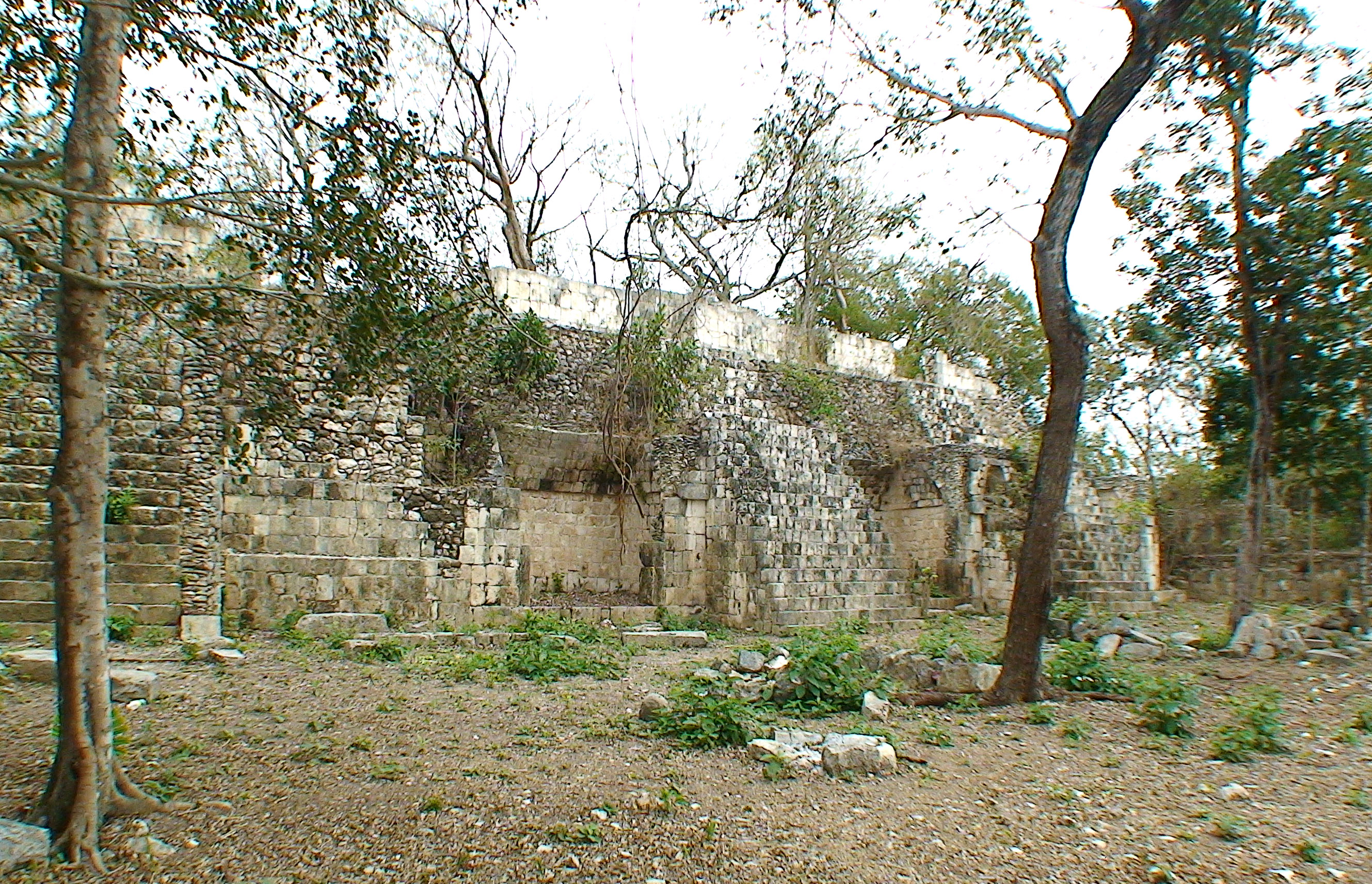 Acanmul, Campeche, Mexico: palace